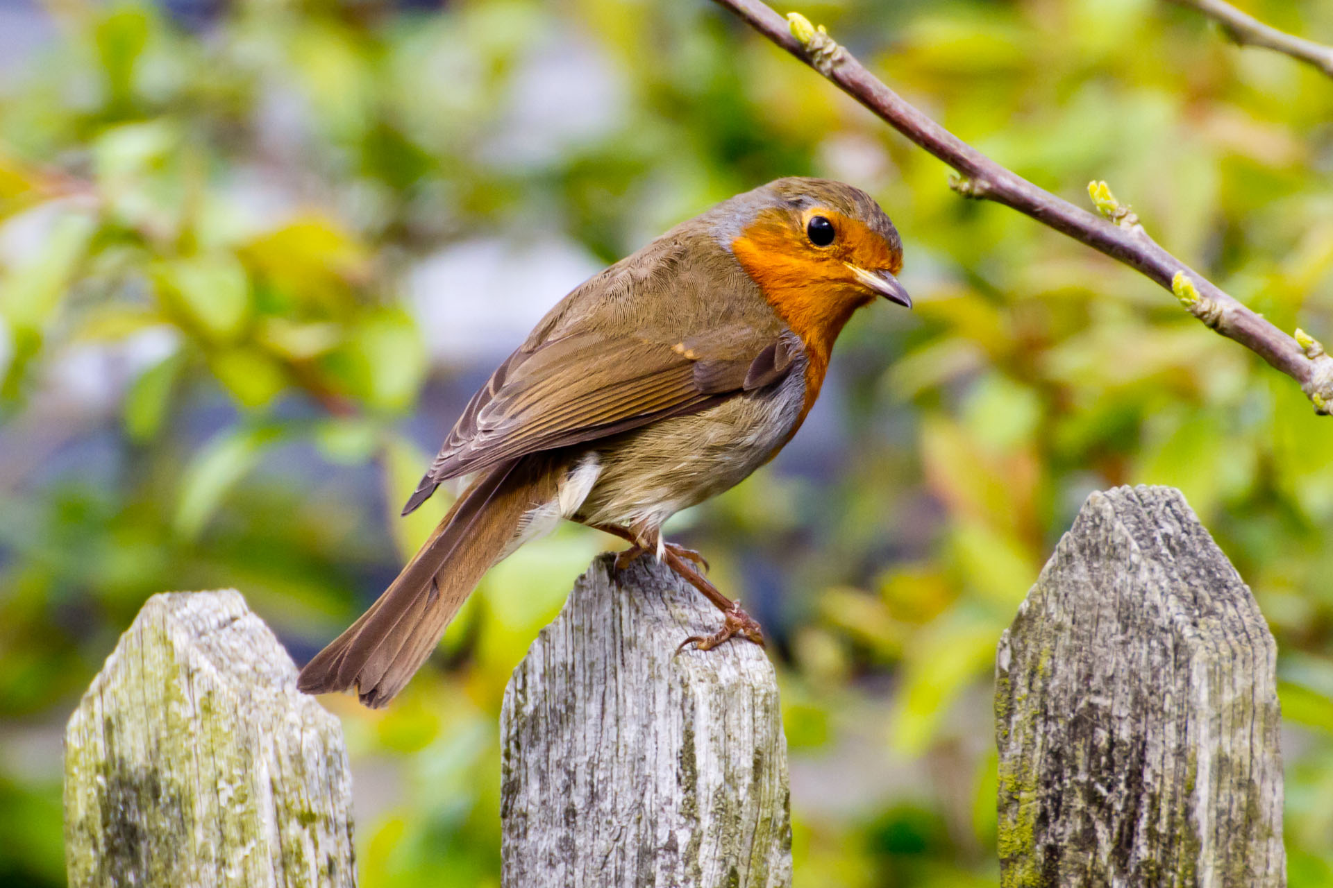 A European robin (Erithacus rubecula), sitting on a fence